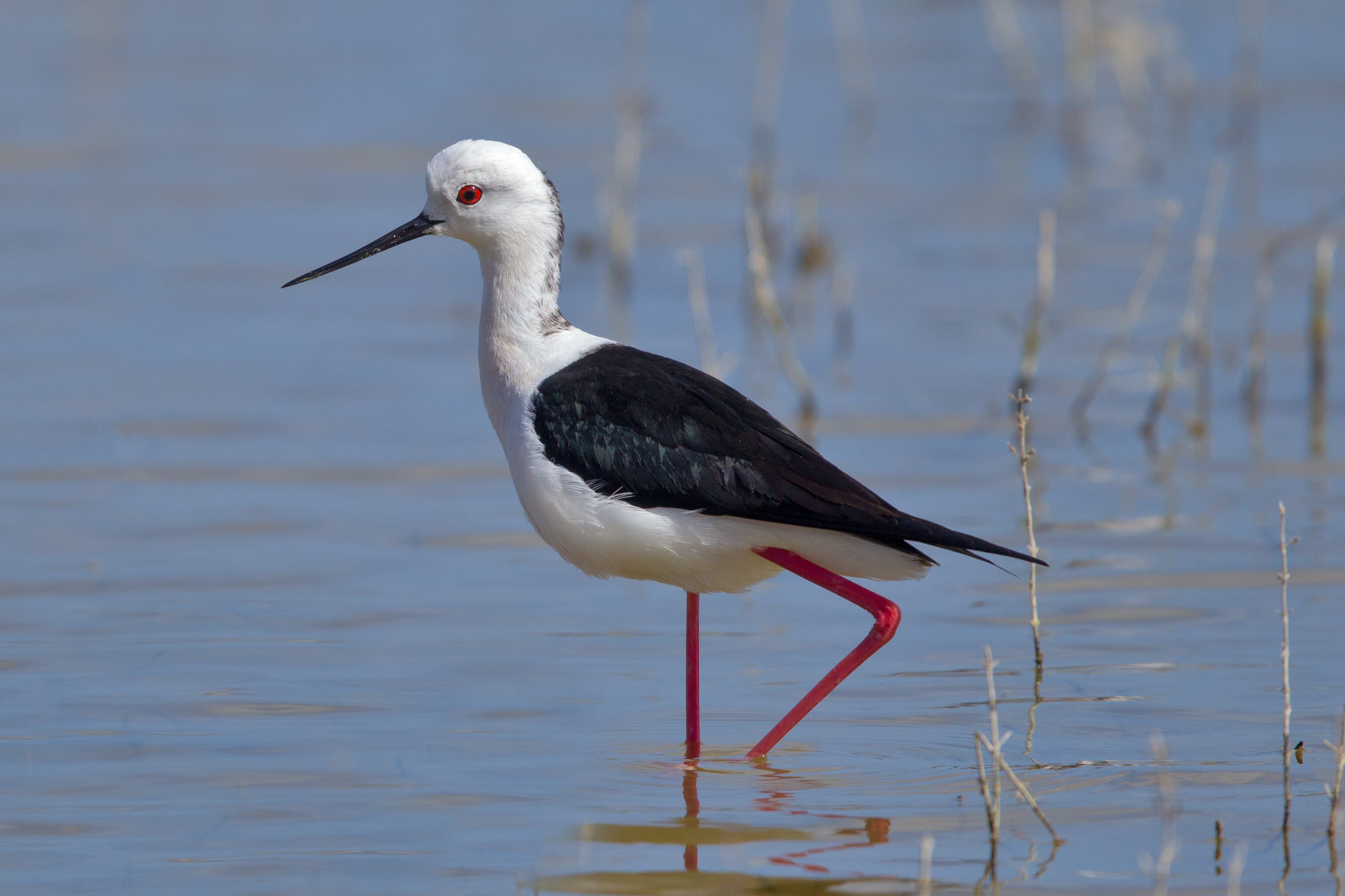 Black-winged stilt